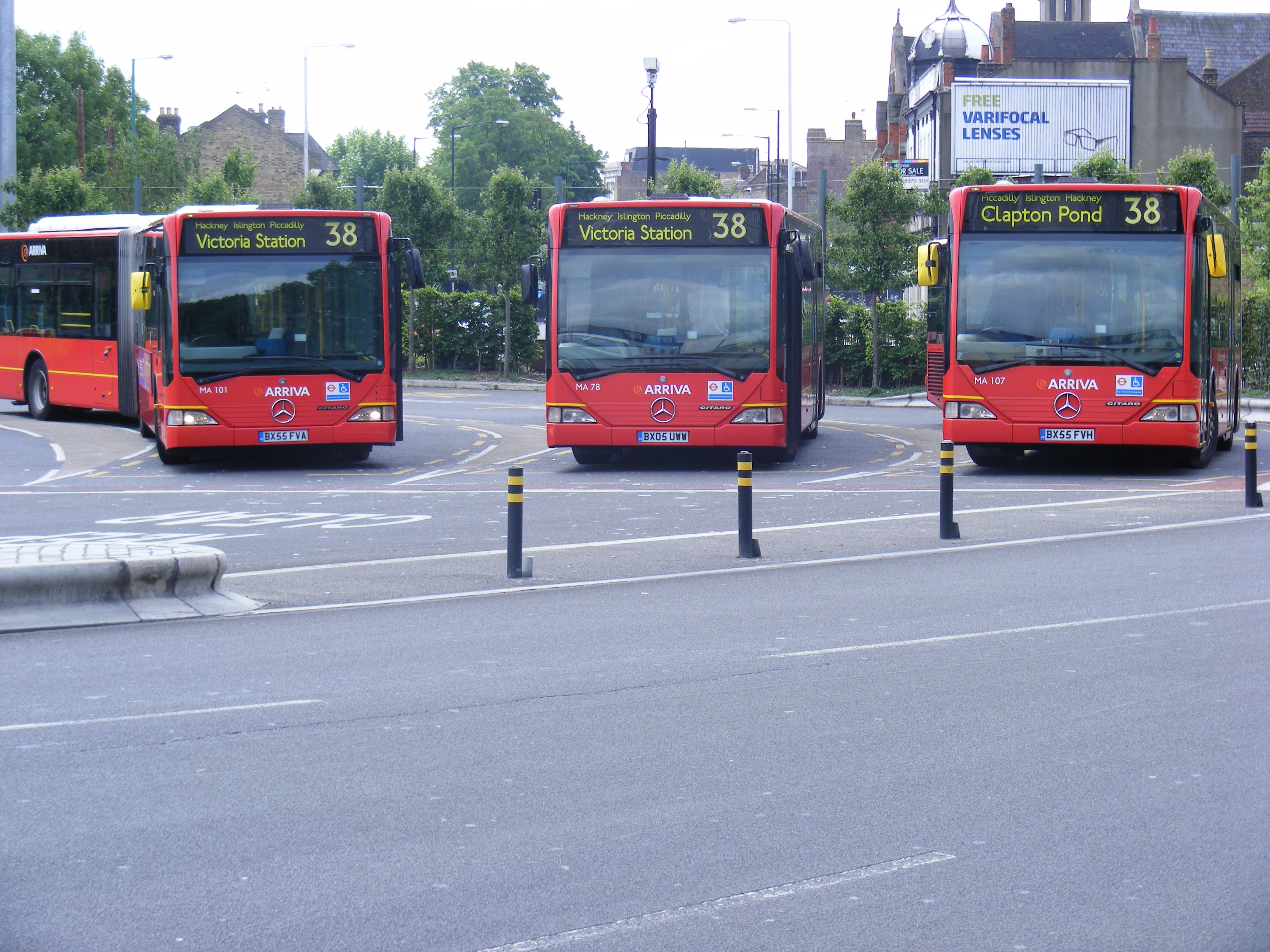 Capacity: high. Revenue collection: low. Traffic congestion: high. A failed experiment, an example of bombast completely disconnected from a study of the human psyche. Oddly, the some sections of the bus industry fall over themselves at the mention of bendy buses for moving people: obviously not the sections which have to balance the books.